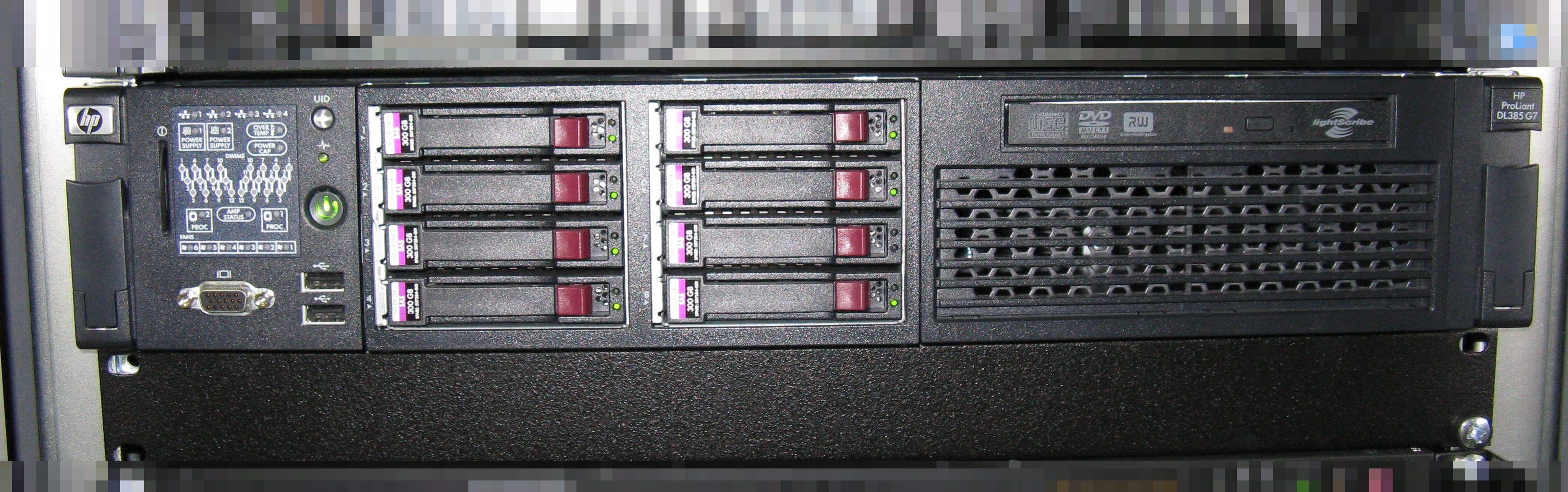 Wikimedia Hungary Association server front. Server Hewlett-Packard ProLiant DL385 G7